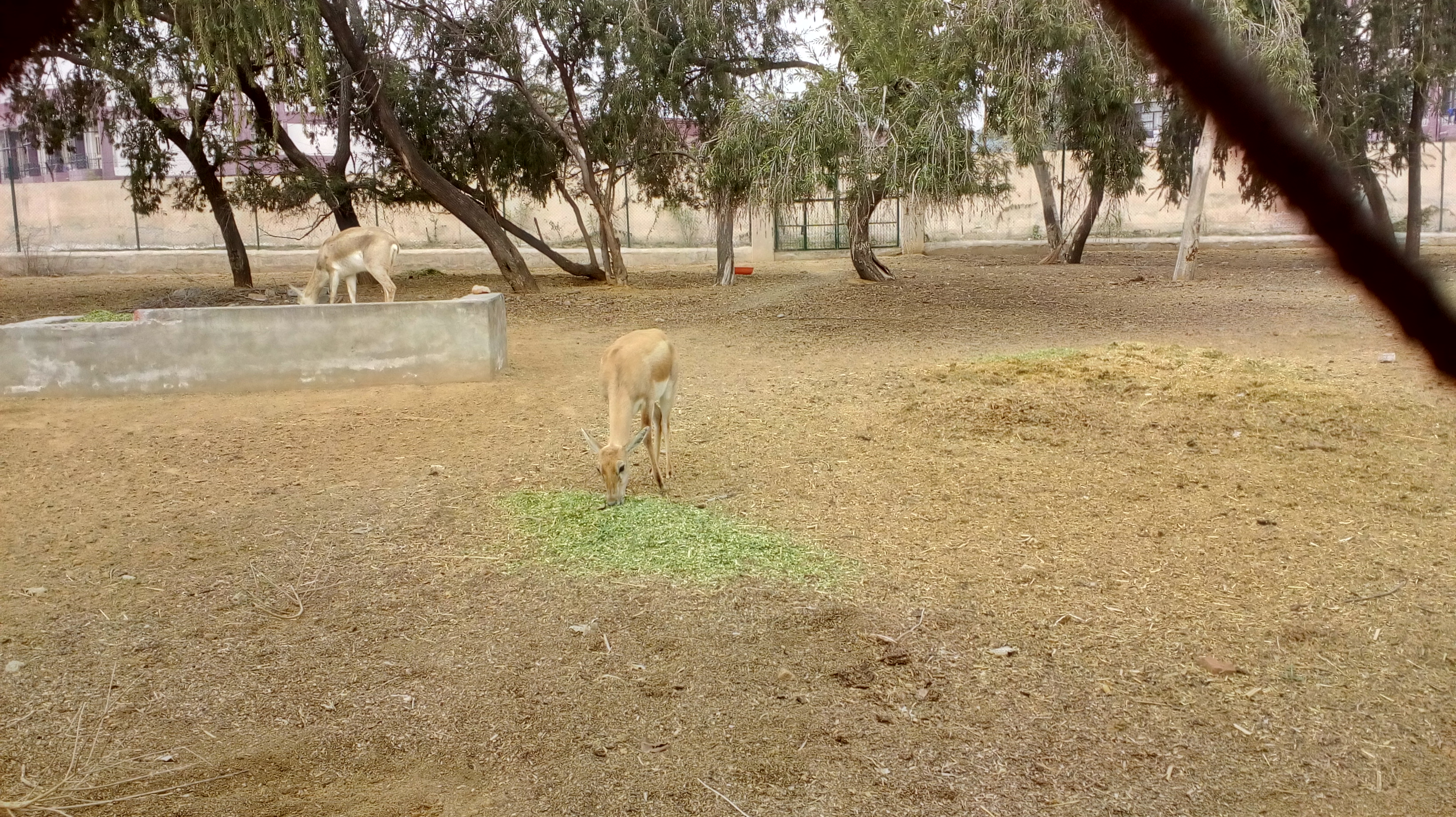 Deer at Mini Zoo